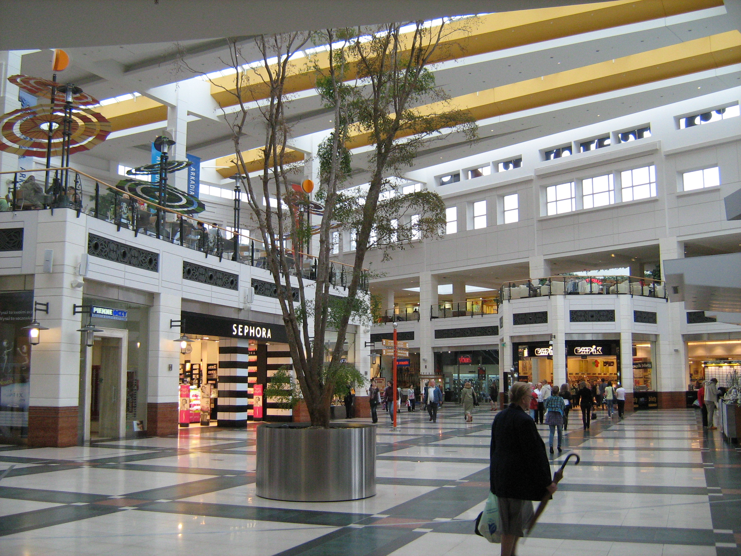 Arkadia Center in Warsaw Poland - interior view